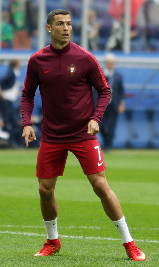 New Zealand VS. Portugal 0 - 4, 24 June 2017